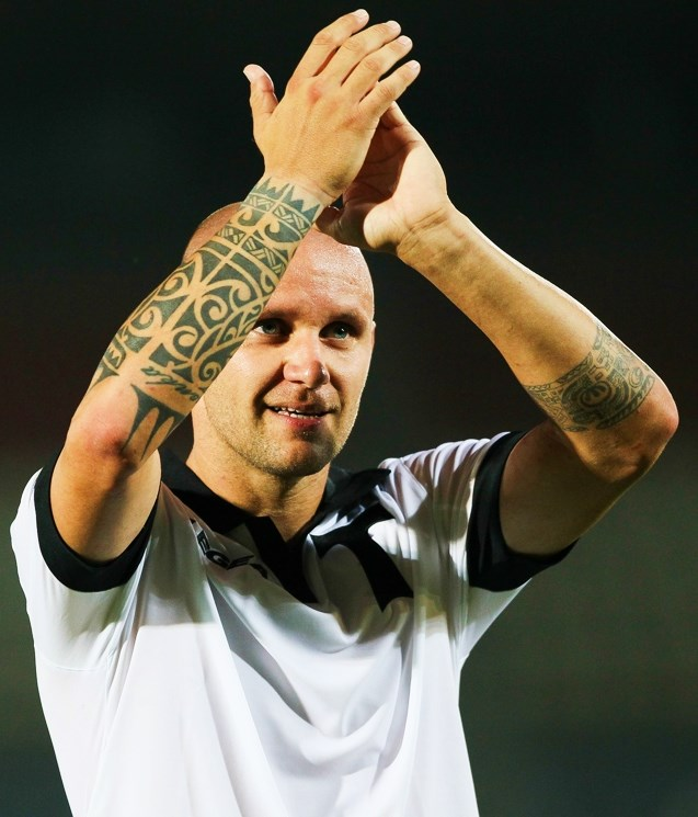 Lukáš Tesák 2014